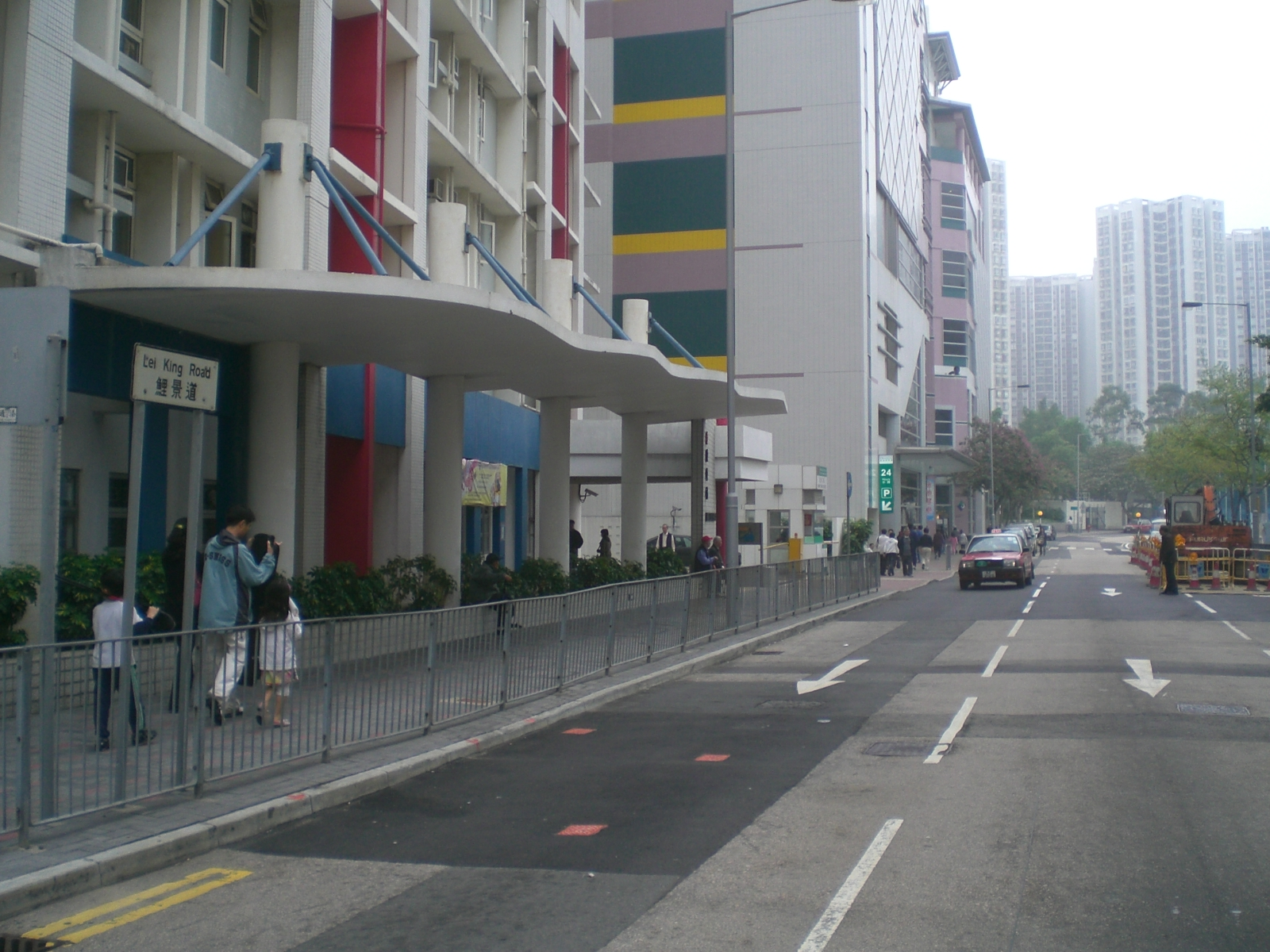 香港東區西灣河 鯉景道